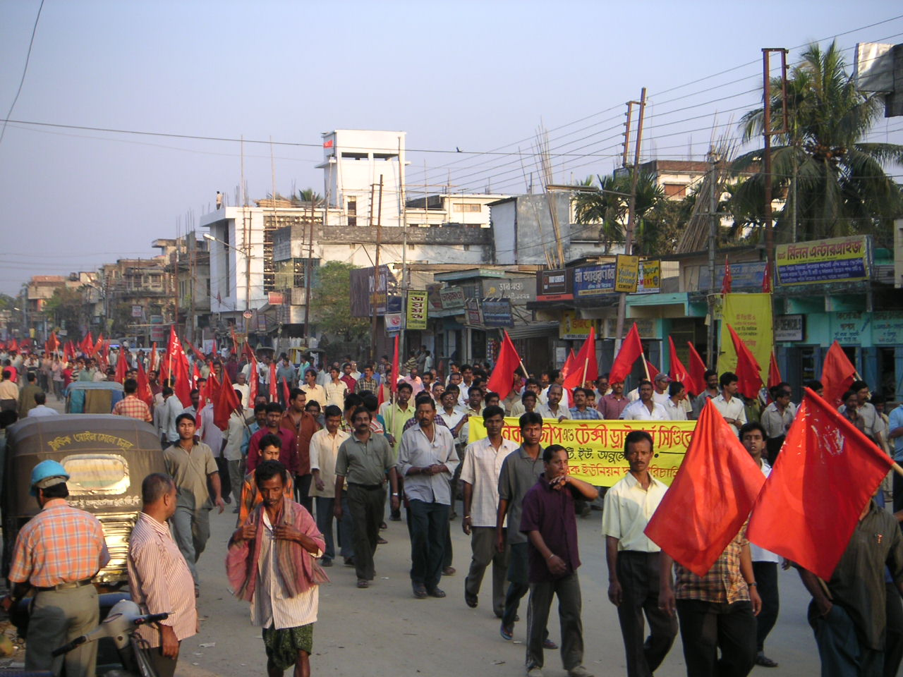 CPI(M) rally in Agartala, Tripura. Photo: Soman